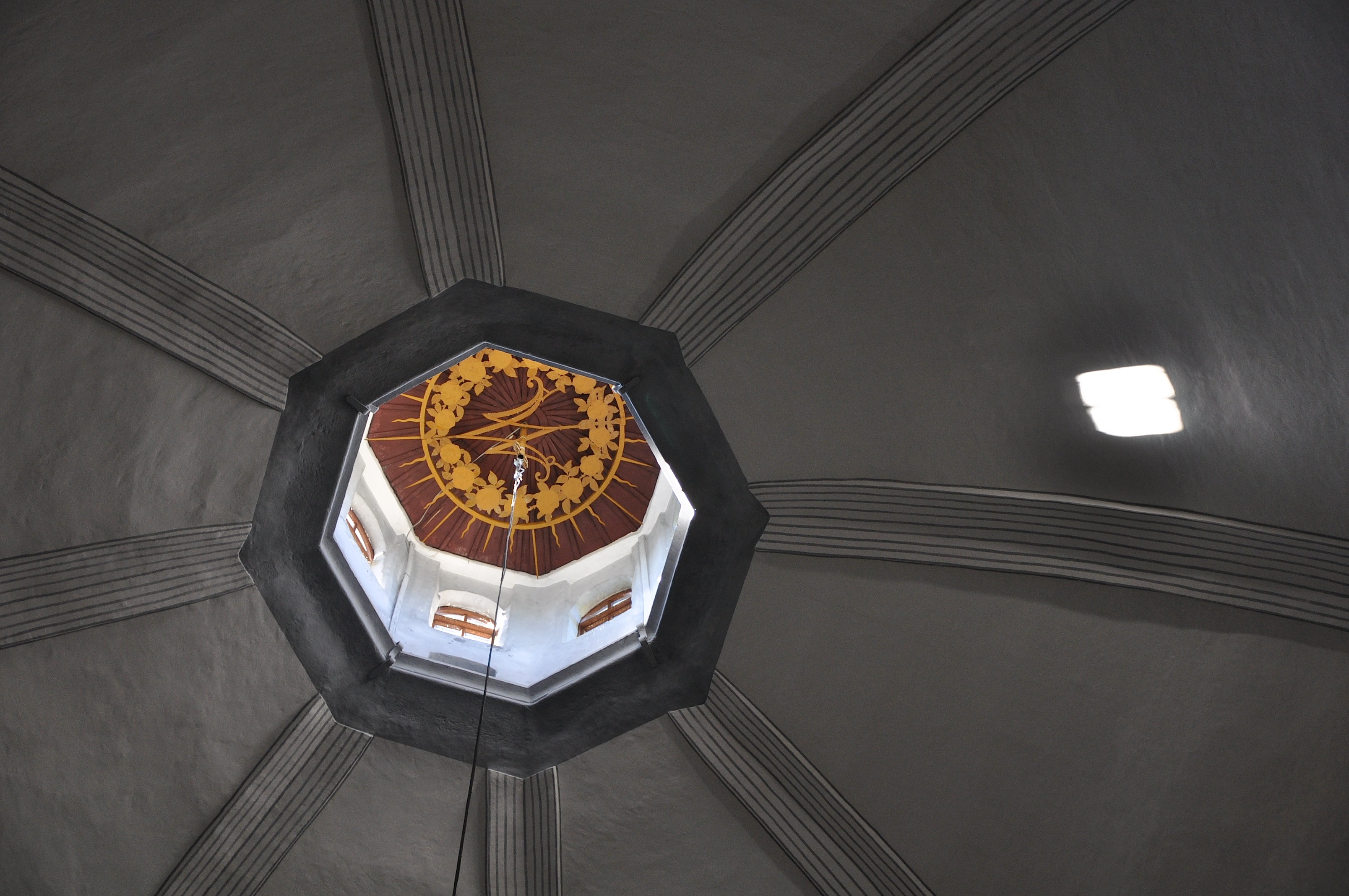 Nova Štifta church, Slovenia